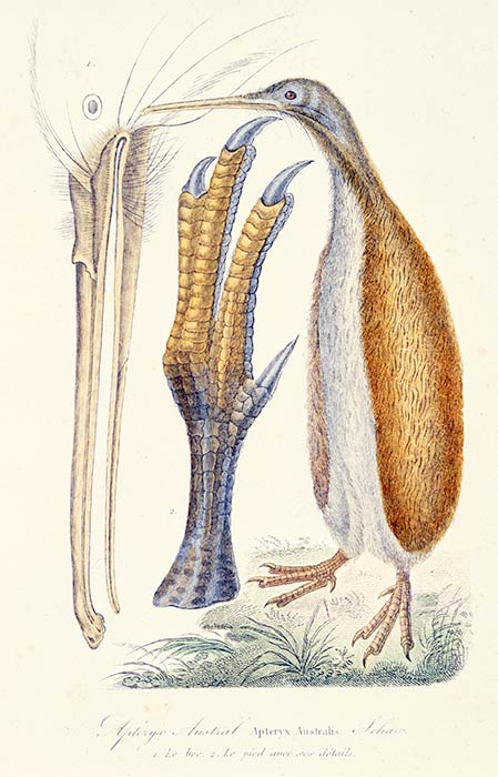 Copy of kivi by Richard Nodder. First published in Rene Primever Lesson’s Voyage autour du monde entrepris par ordre du gouvernement sur la corvette la Coquille (1838–39)